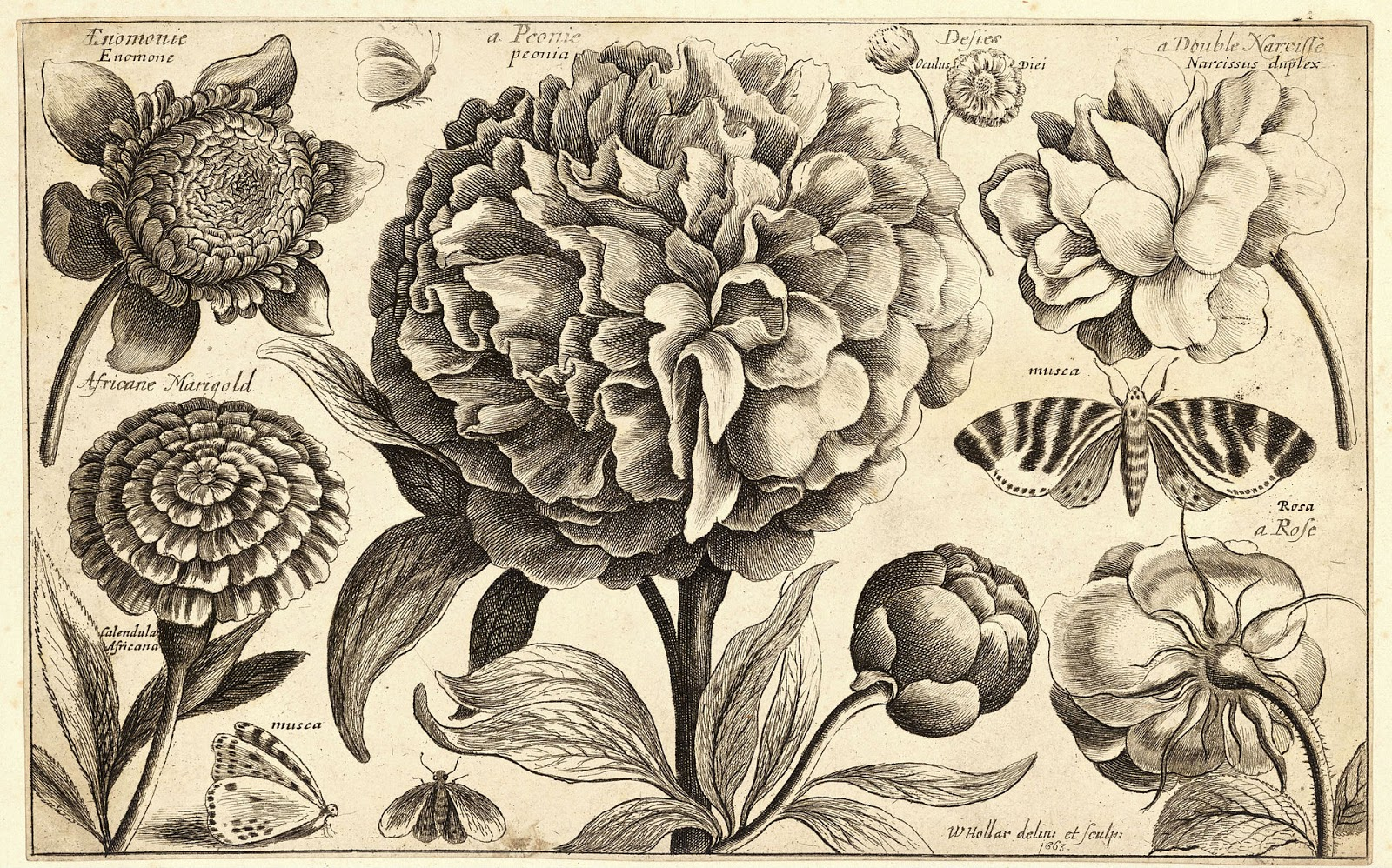 "A Peony" - etching, 17 x 27 cm